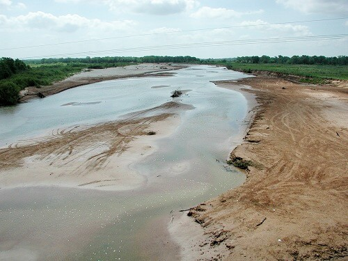 The Canadian River near Bridgeport, Oklahoma